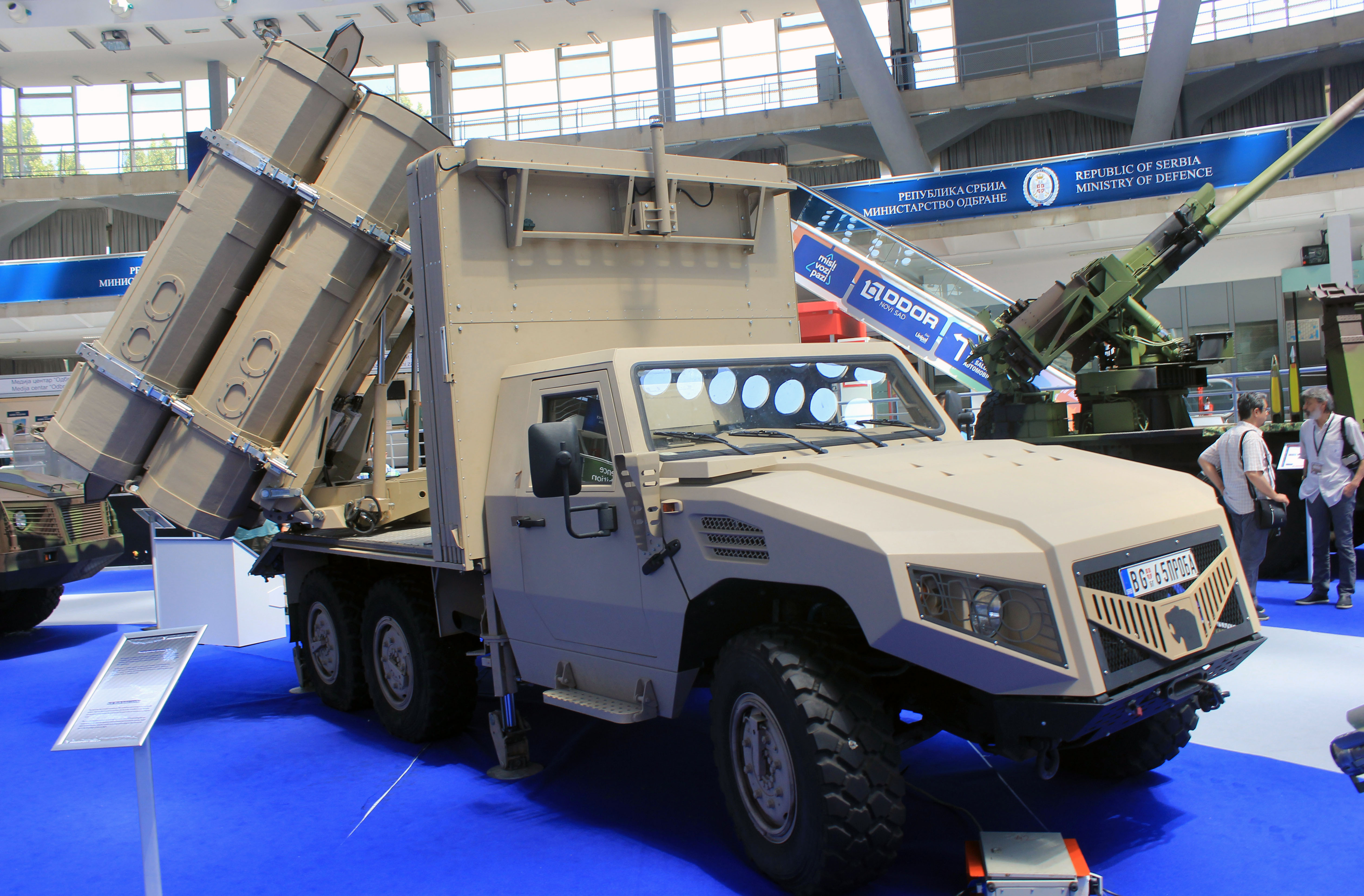 ALAS guided missile launch vehicle on Nimr vehicel chassis on display at "Partner 2017" military fair.